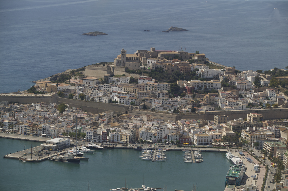 Aerial view of the old city of Ibiza, also called Dalt Vila, in the Balearic Islands, Spain.